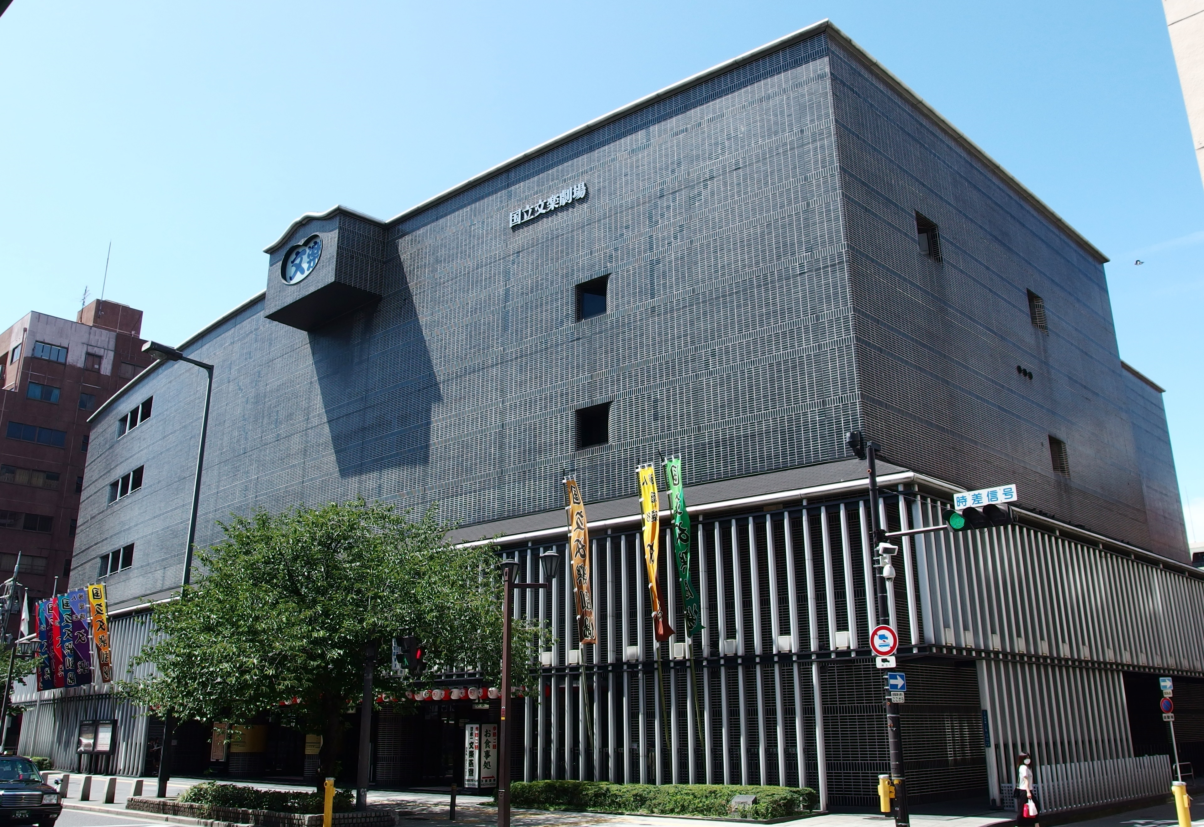 Nationa_ Bunraku_Theatre, Osaka, Osaka Prefecture, Japan